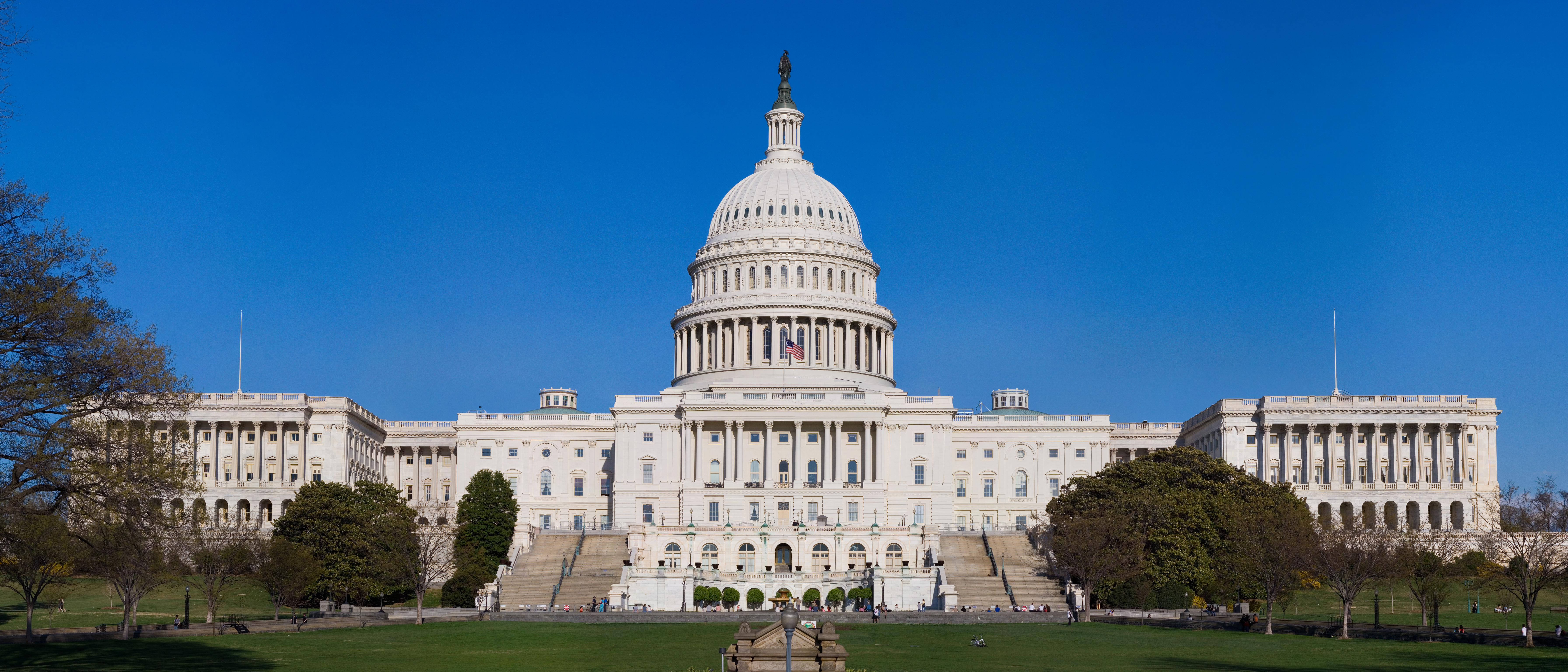 The western front of the United States Capitol. The Capitol serves as the seat of government for the United States Congress, the legislative branch of the U.S. federal government. It is located in Washington, D.C., on top of Capitol Hill at the east end of the National Mall. The building is marked by its central dome above a rotunda and two wings. It is an exemplar of the Neoclassical architecture style.